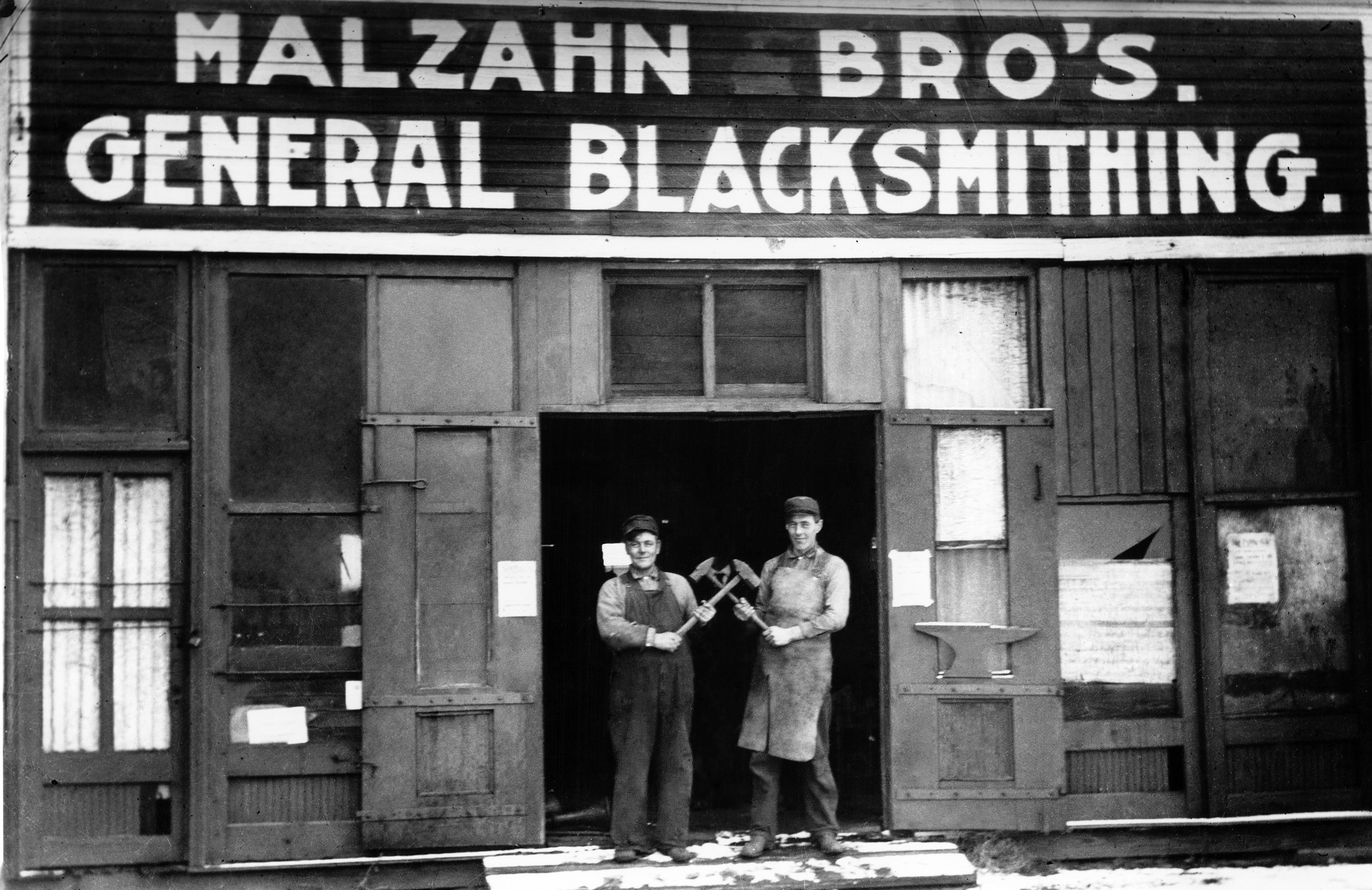 The front of the Malzahn Brothers' General Blacksmithing shop. Ed Malzahn and an unknown person in the photograph.